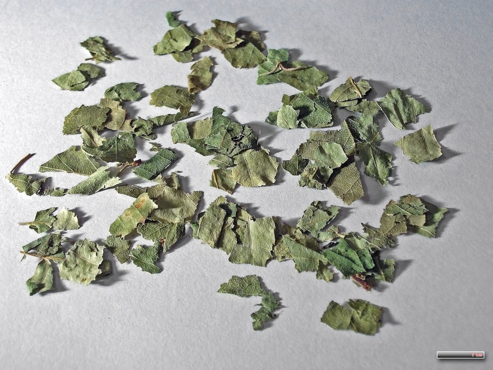 dried Betula pendula, B. pubescens, Birchleaves